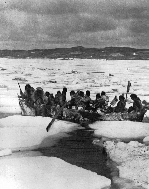 Print, Inuit group in umiak, in the spring, 1920-1929, Robert J. Flaherty, Photogravure on paper, 50.3 x 33.6 cm